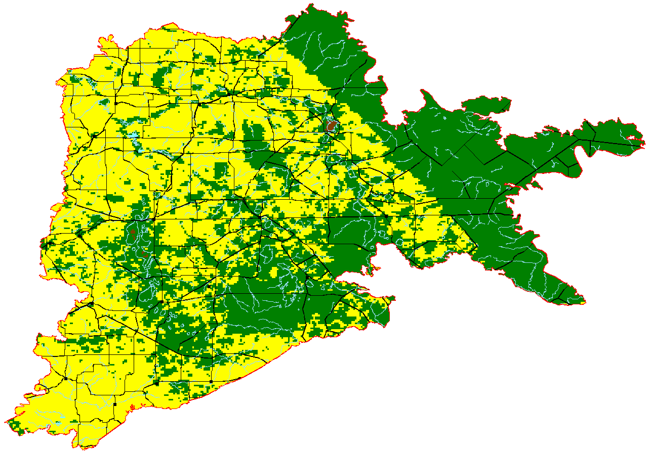 This is a map showing internal detail of the Interim Biogeographic Regionalisation of Australia (IBRA) Western Mallee subregion. Areas that are predominantly given over to agriculture are shown in yellow; those that are still native vegetation are green; barren areas are light brown. Roads, railway lines, towns, watercourses and lakes are also shown.